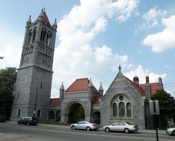 Picture of the Penn Avenue Gatehouse of Allegheny Cemetery, in the Lawrenceville neighborhood of Pittsburgh, Pennsylvania, on September 23, 2010. Built in 1887, architects Dull & Macomb. Architectural style: Richardsonian Romanesque. The gatehouse is on the List of Pittsburgh History and Landmarks Foundation Historic Landmarks.